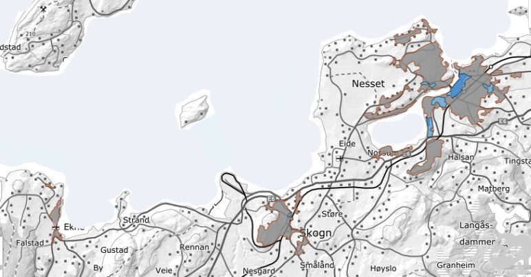 Maps of urban areas